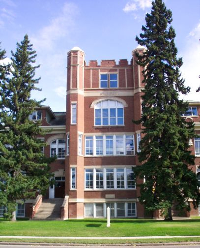 Westmount School (1913) in the neighbourhood of Westmount, Saskatoon. Original URL: Author: Westmount Community Association Author's permission forwarded to on October 31, 2007